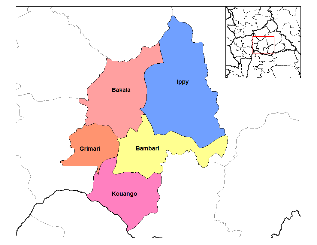 Map of the sub-prefectures of Ouaka prefecture in the Central African Republic. Created by Rarelibra 20:43, 31 August 2006 (UTC) for public domain use, using MapInfo Professional v8.5 and various mapping resources.